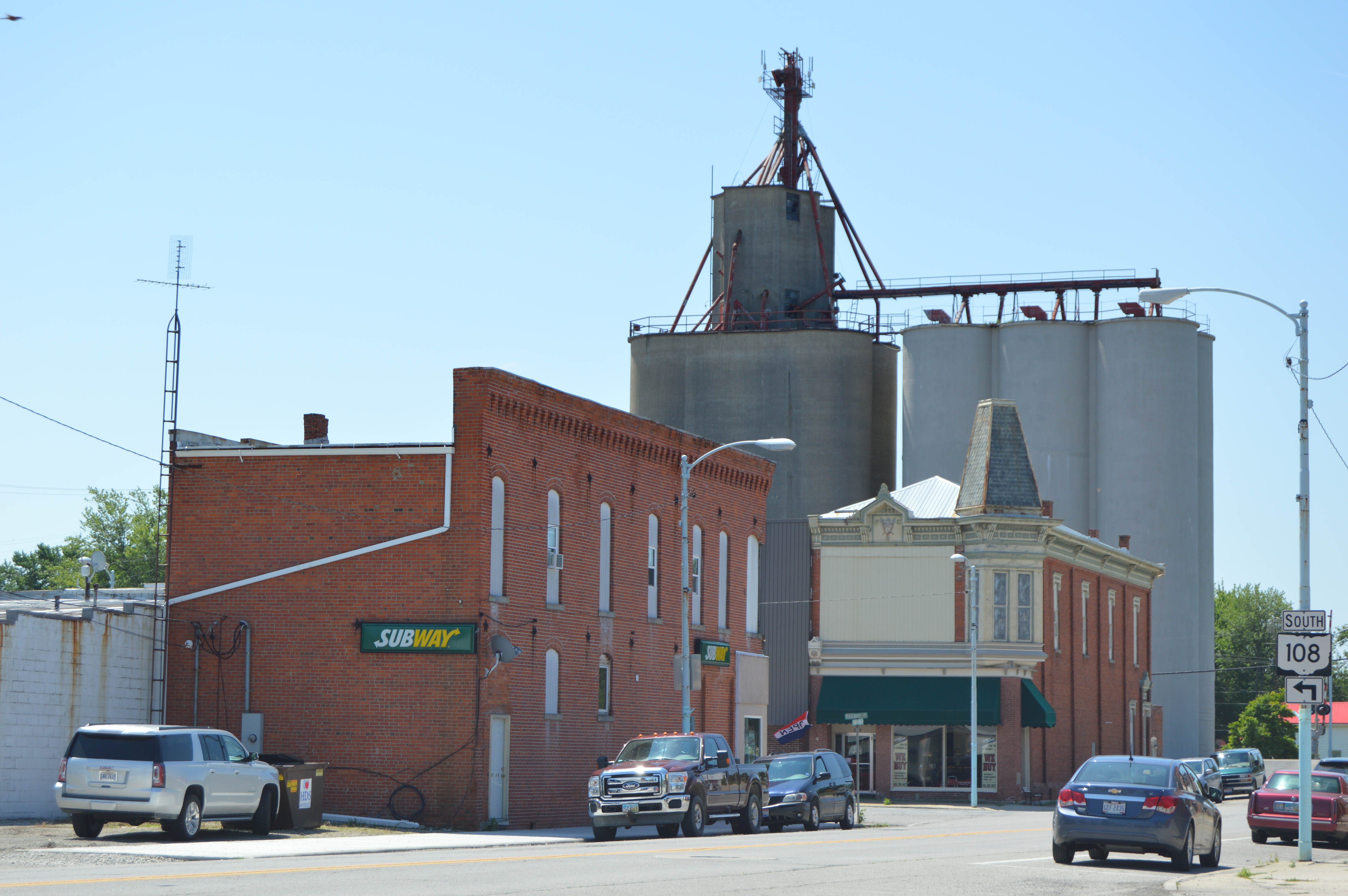 Commercial buildings and the community grain elevator, seen looking down Wilhelm Street (State Route 108) from the Elm Street intersection in Holgate, Ohio, United States.